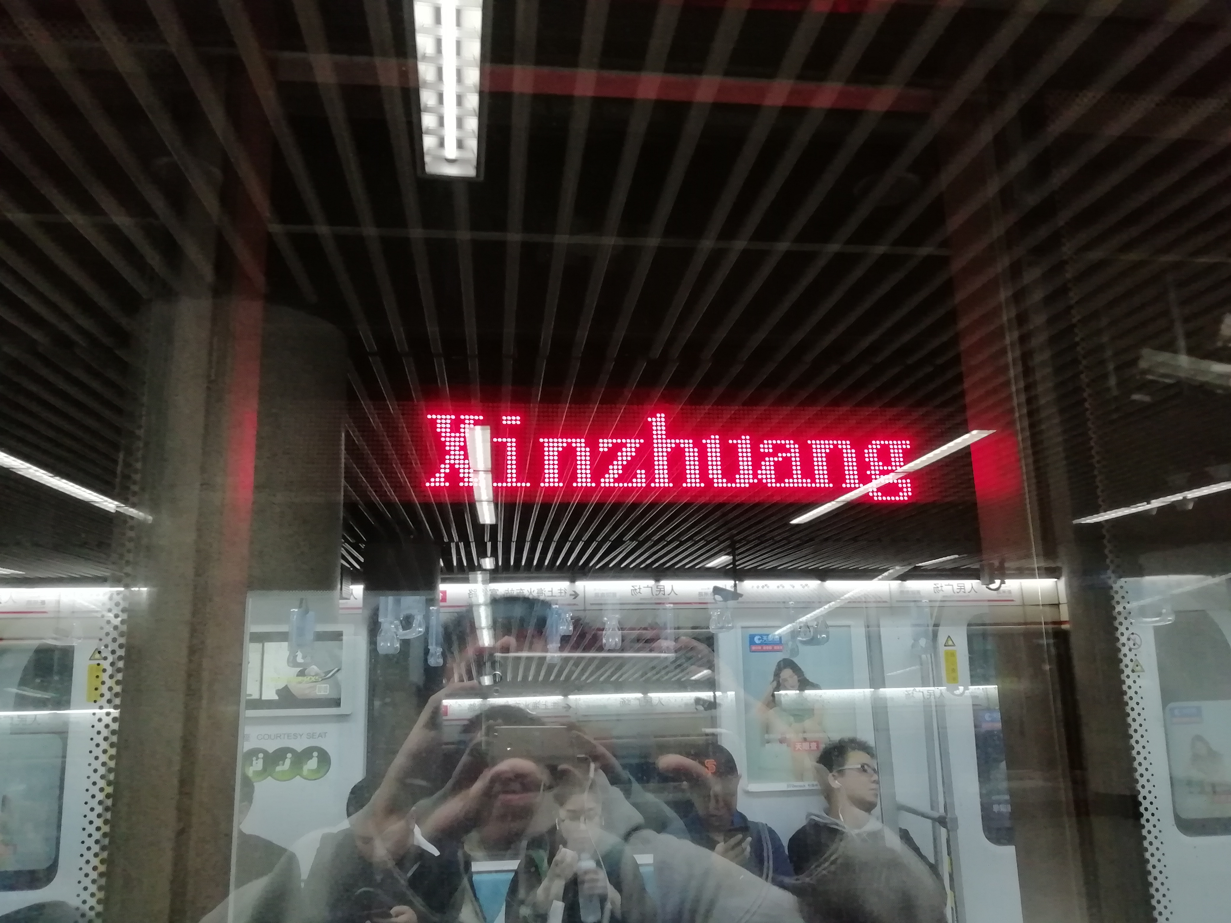 External Display of Shanghai Metro 01A06. This train is bound for Xinzhuang, and I took off at People's Square.